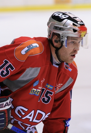 Viktor Wallin, during the game Grenoble vs. Gap (League Cup)